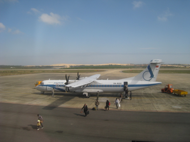 An ATR 72 in Dong Hoi Airport